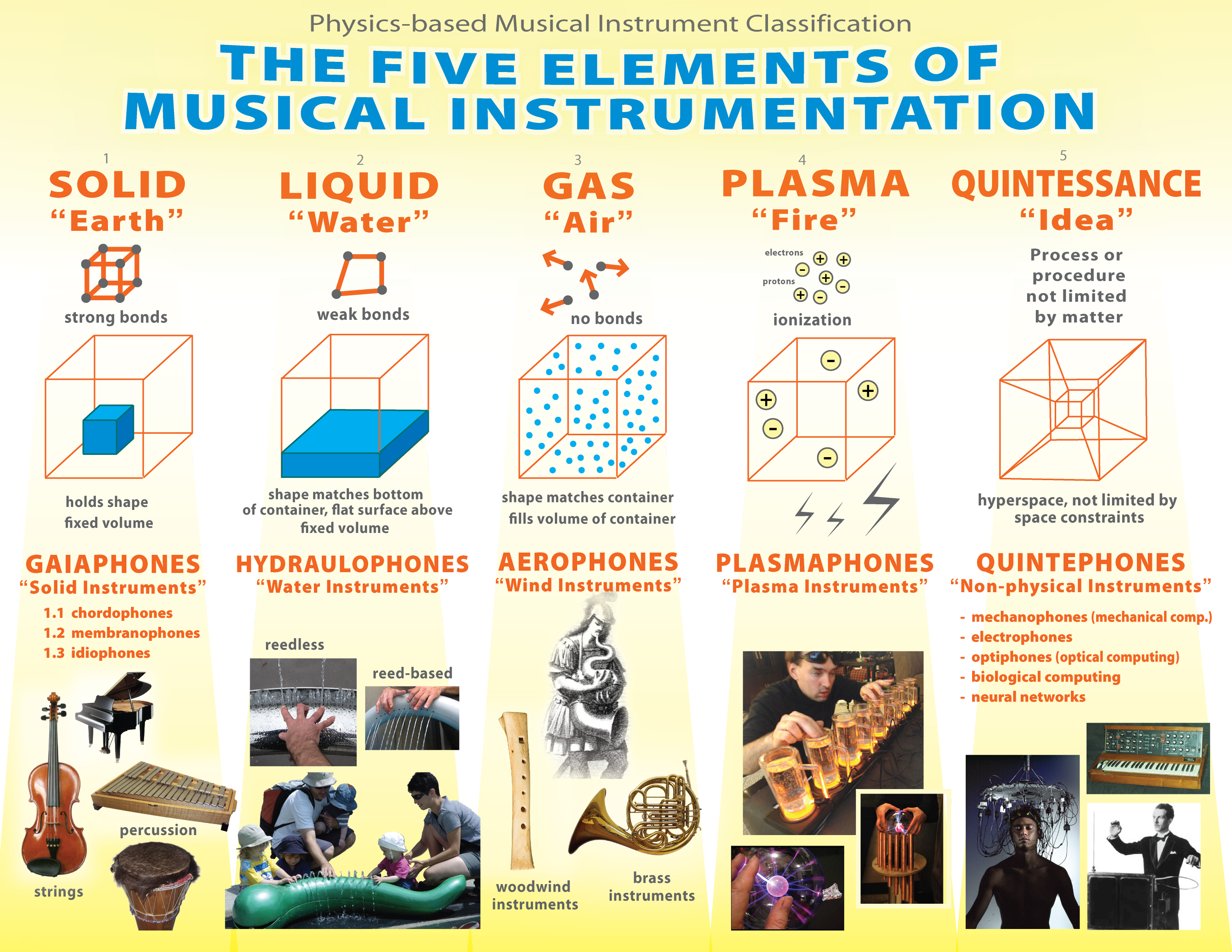 Physical Organology (physics-based musical instrument classification)